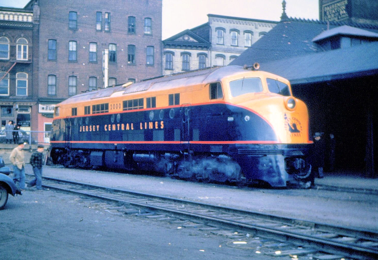 1946 - New Jersey Central locomotive 2000 at Terminal RR Depot